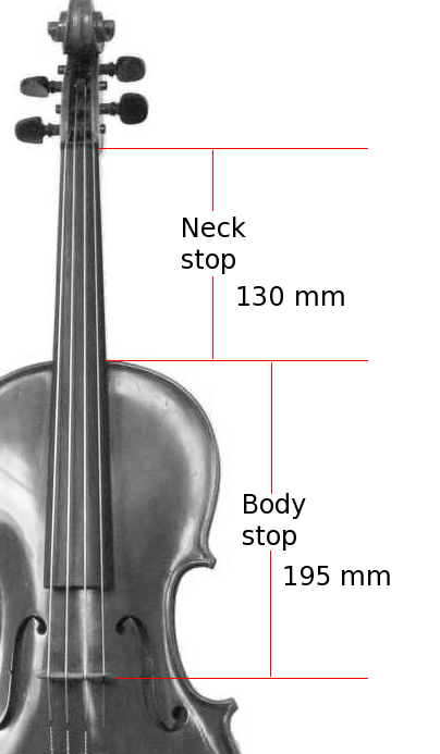 Neck stop and body stop, pointed out on a 4/4 size violin